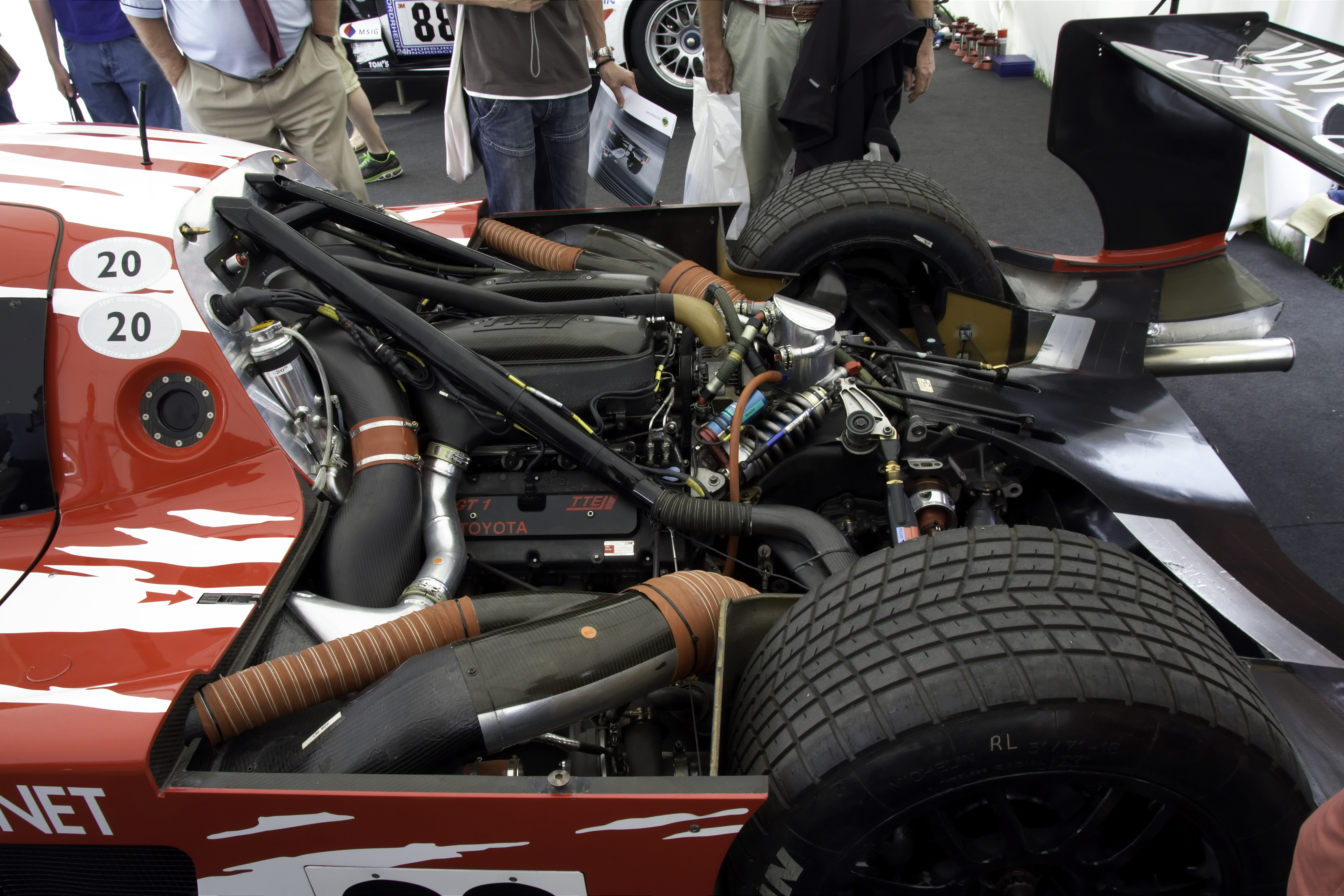 Toyota TS020 GT-one